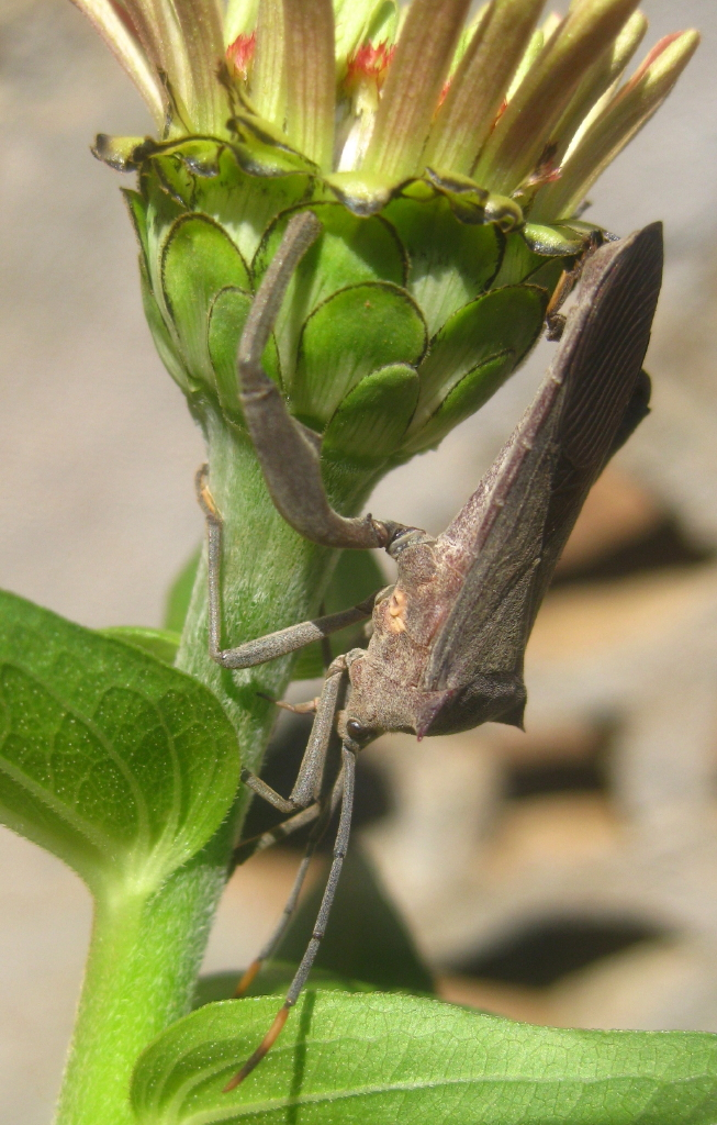 A twig wilting bug (Family Coreidae, Hemiptera) sucking the sap out of a Zinnia stem with its rostrum.